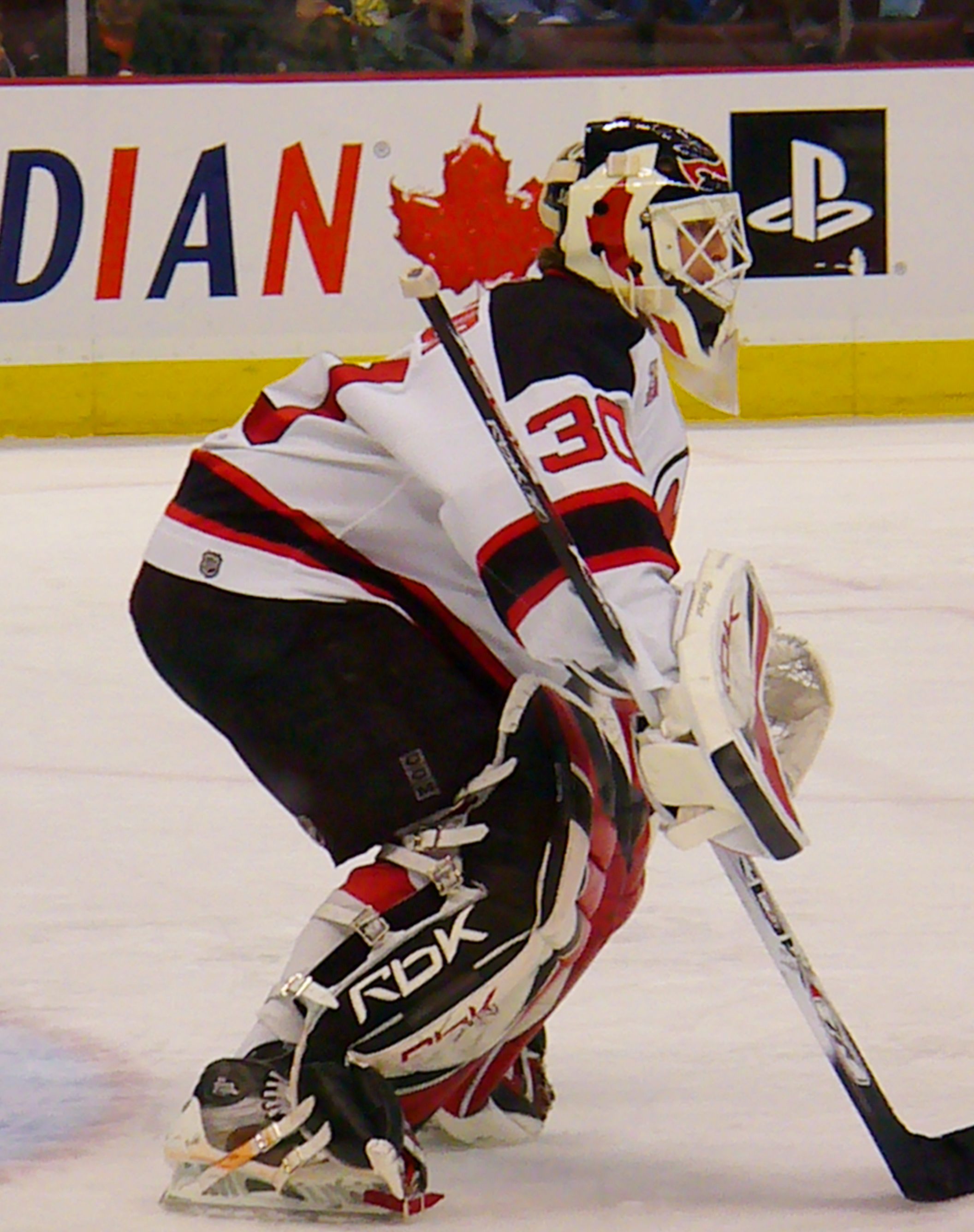 Martin Brodeur readies himself for action.